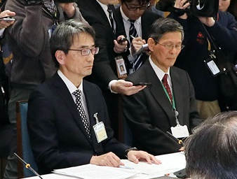 Takaji Wakita, Chairman of the Novel Coronavirus Expert Meeting, Novel Coronavirus Response Headquarters, Shigeru Omi, Vice-Chairman of the Novel Coronavirus Expert Meeting, Novel Coronavirus Response Headquarters, Nobuhiko Okabe, Satoshi Kamayachi, Akihiko Kawana and Motoi Suzuki, Members of the Novel Coronavirus Expert Meeting, Novel Coronavirus Response Headquarters, attended a meeting of the Novel Coronavirus Expert Meeting, Novel Coronavirus Response Headquarters at the Prime Minister's Official Residence in Chiyoda Ward, Tōkyō Metropolis on February 16, 2020.